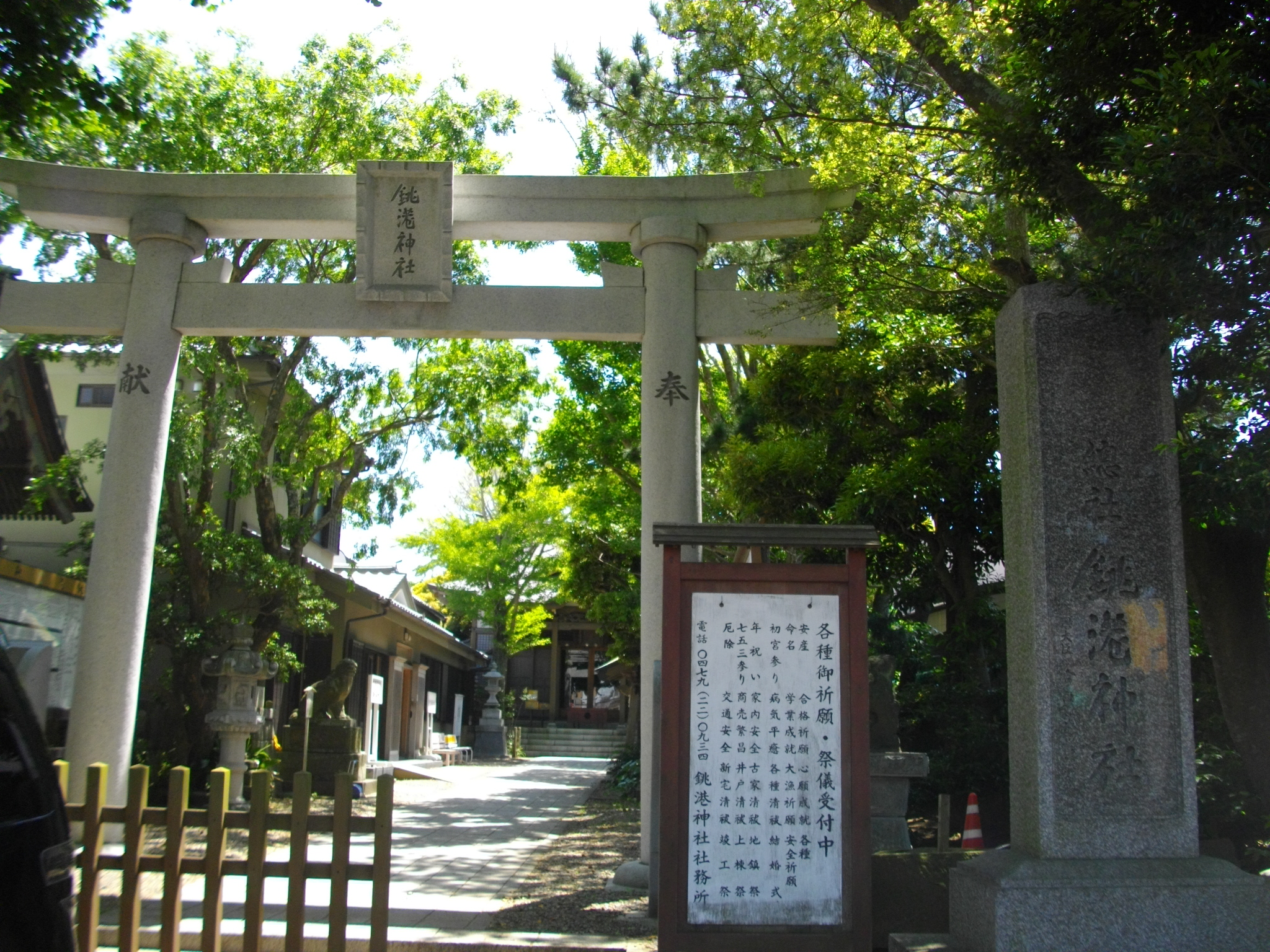 Choko Jinja